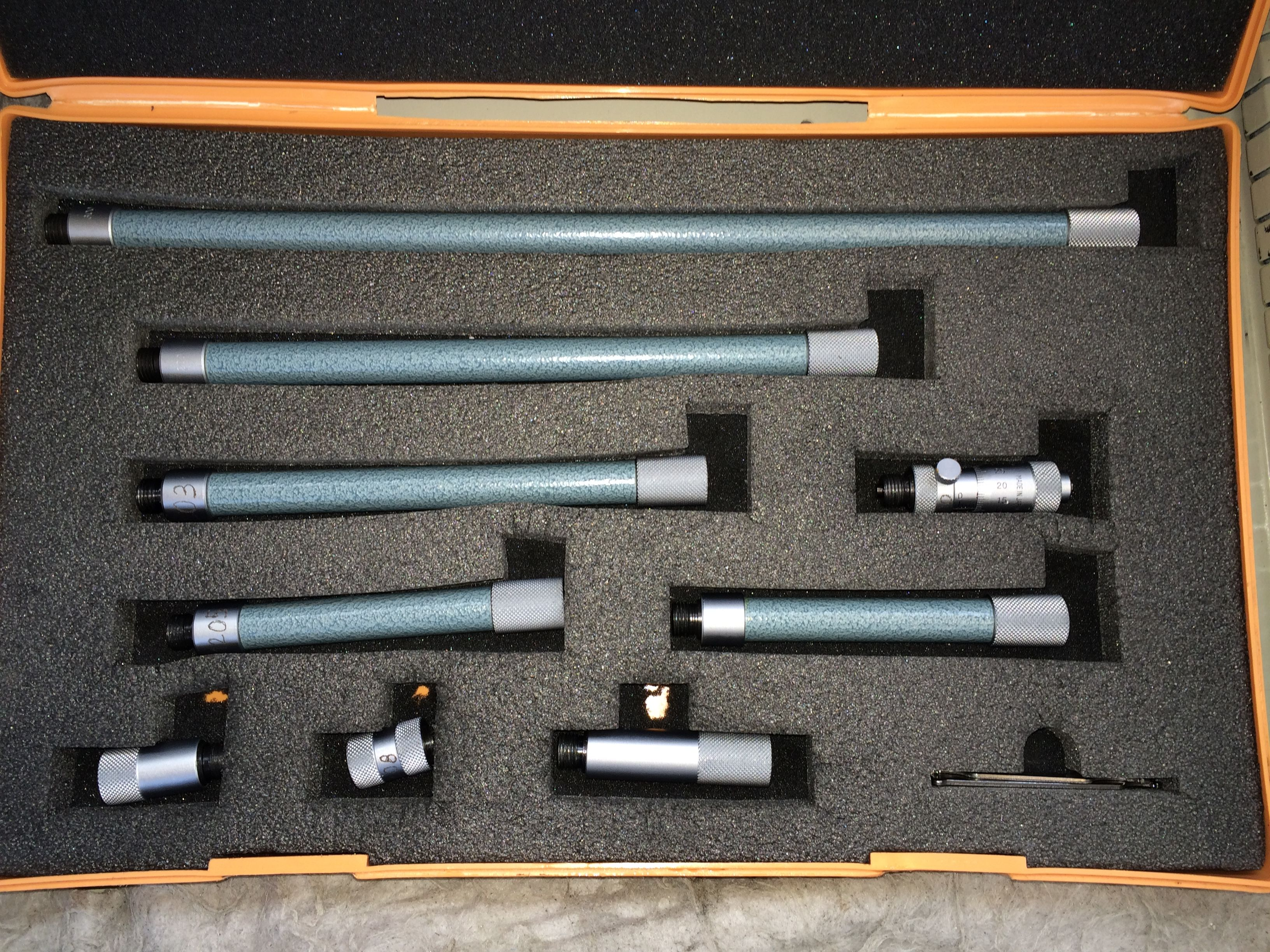 Instrument for gear measurement